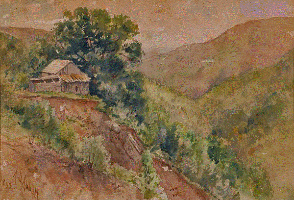 Hillside Landscape by Agnes Dean Abbatt of New York 1893 (not watermark was at top right)